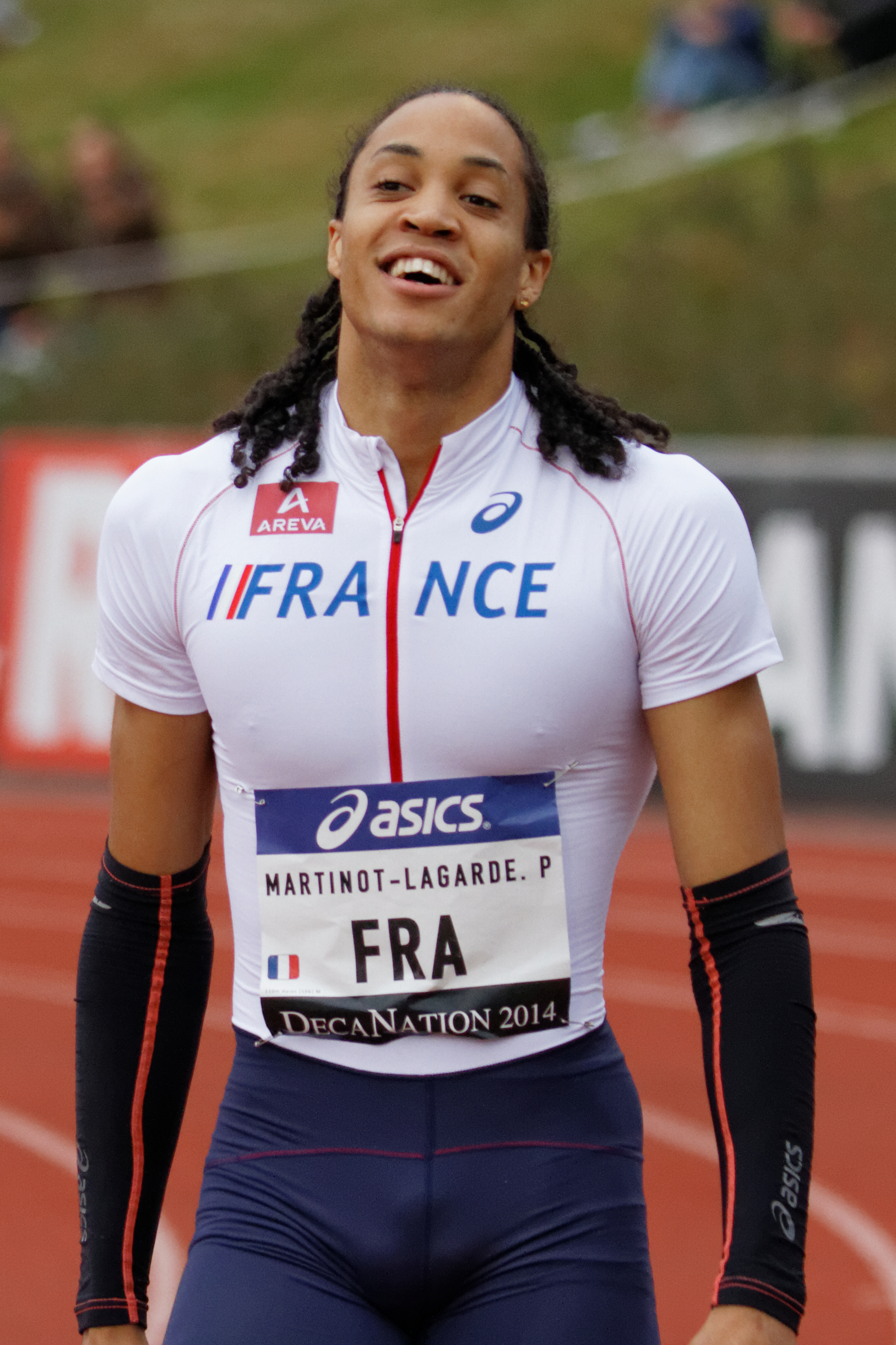 DécaNation 2014. 110m hurdles.